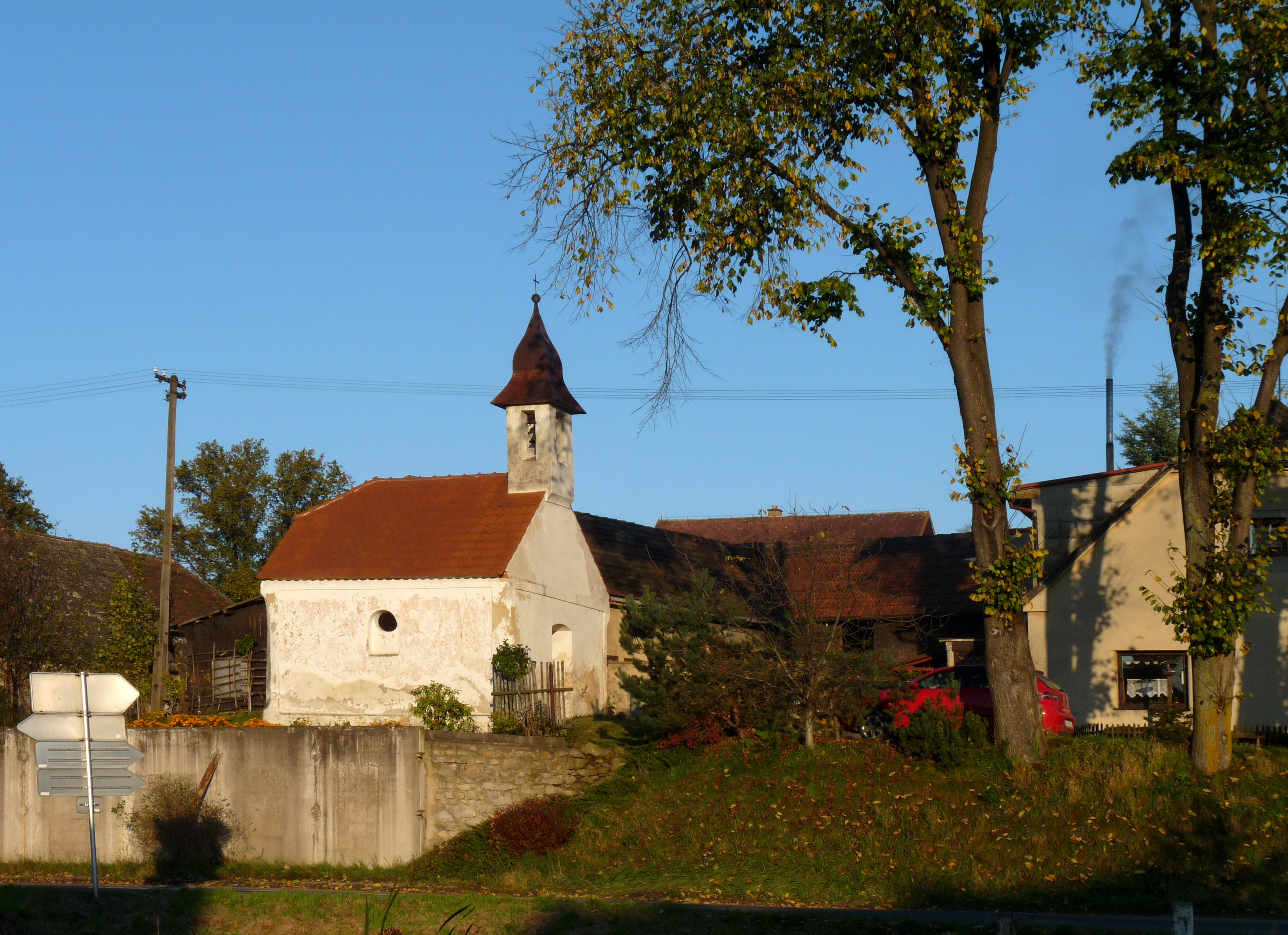 Chapel in the village of Mříč, Český Krumlov District, South Bohemian Region, Czech Republic.